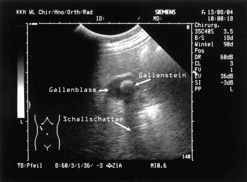 gallbladder with gallstone in sonography